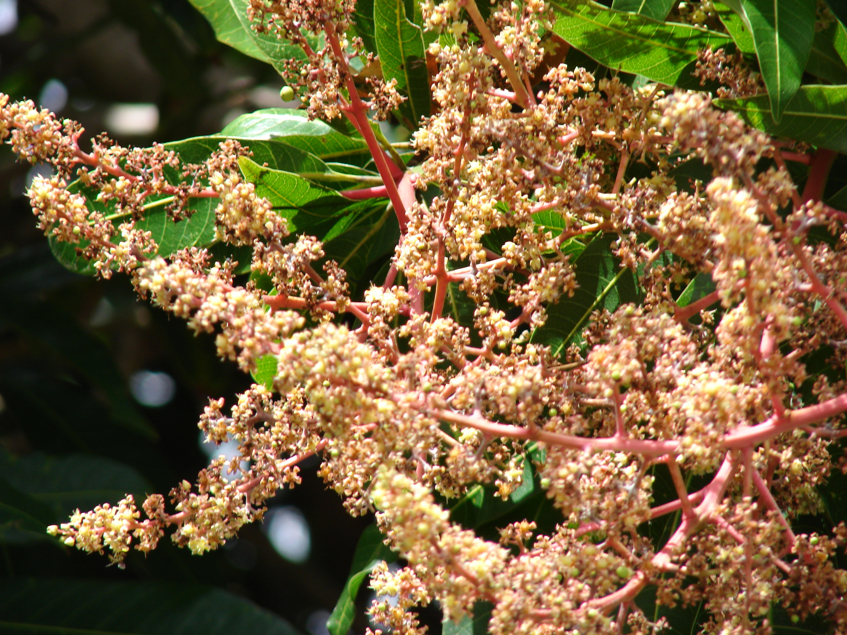 Mangifera indica (flowers). Location: Maui, Huelo Hana Hwy